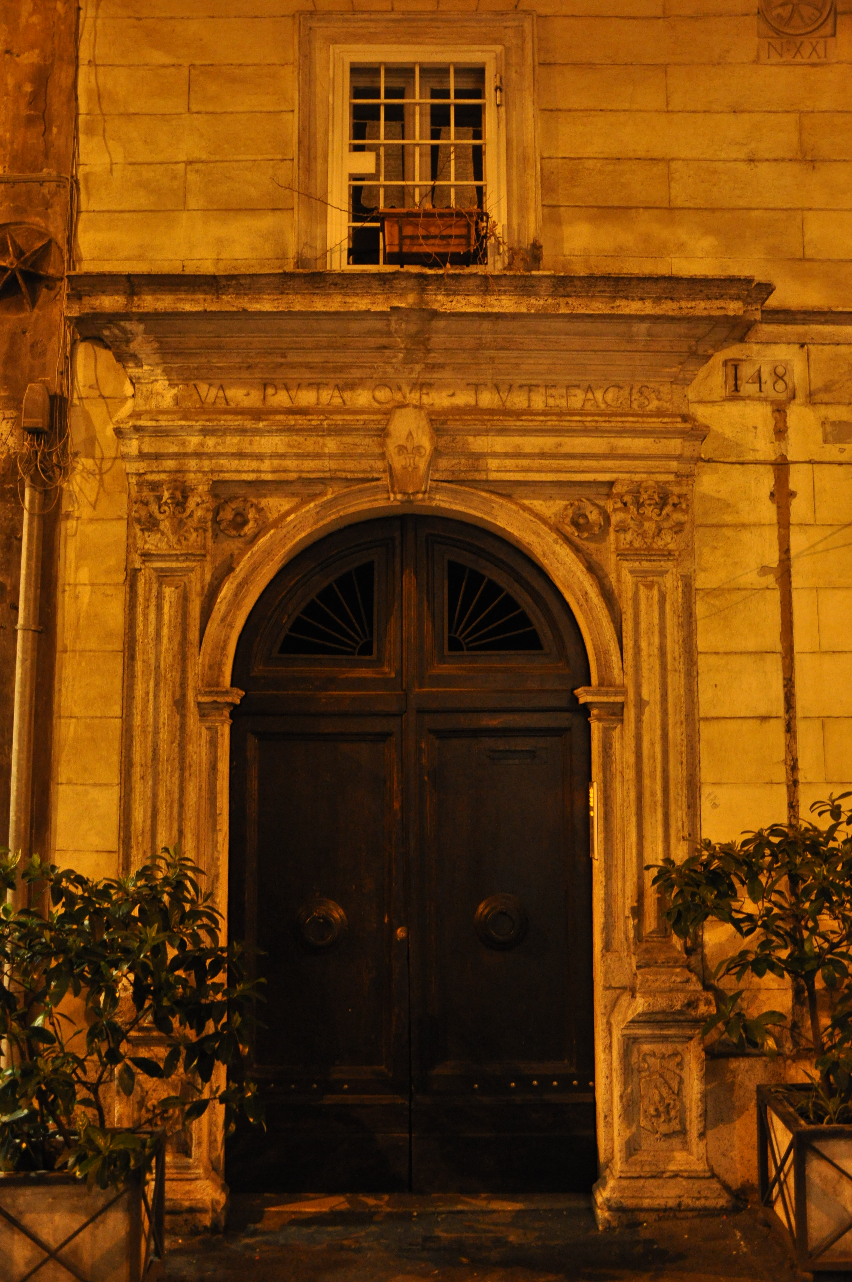 Door of the house of Prospero Mochi (16th century Pope's abbreviator) in Via dei Coronari, Rome. On the architrave, it is etched the owner's Latin motto: "Tua puta que tute facis" ("Consider yours what you are doing").